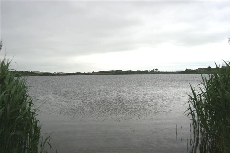 Llyn Maelog, Anglesey